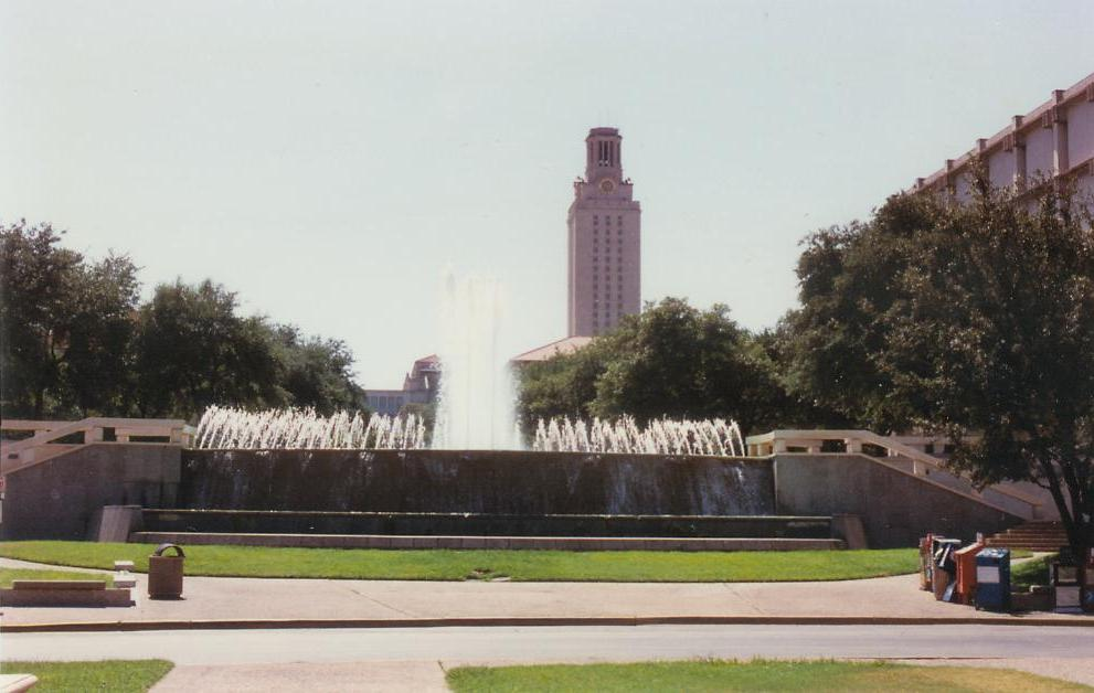 Foreground: East Mall fountain; background: University of Texas Tower, Austin, Texas.